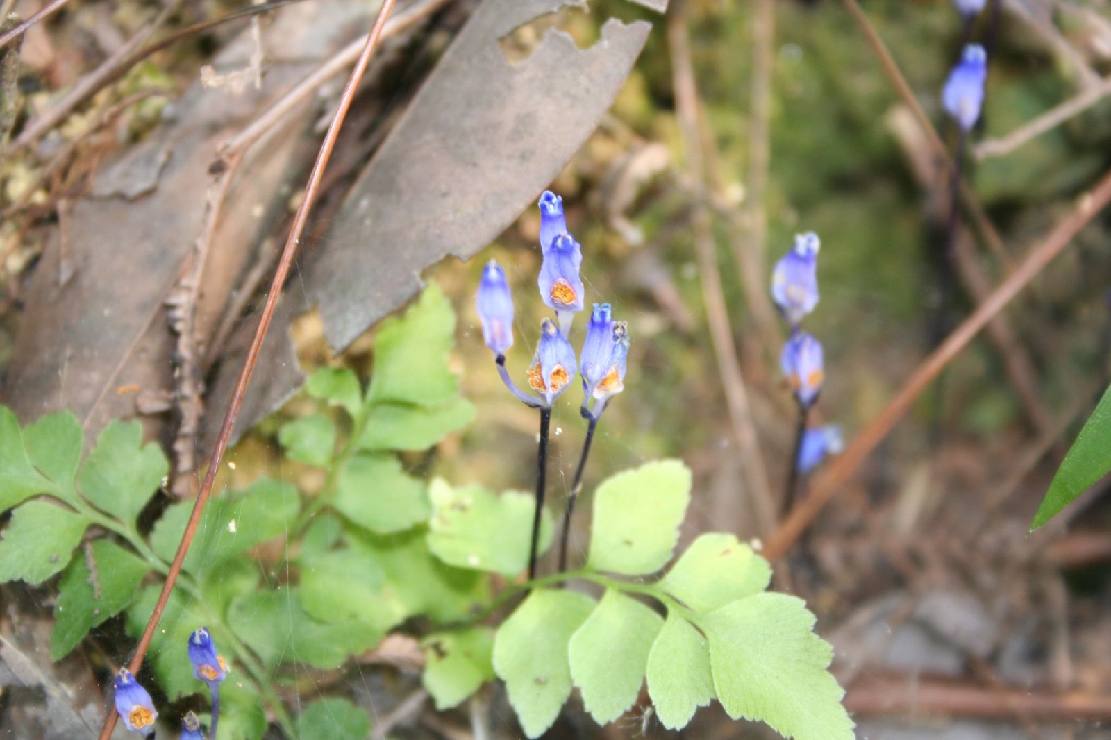 Burmannia wallichii at Taipokau Nature Reserve, Hongkong